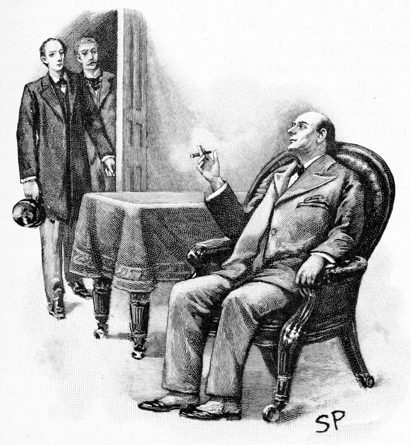 Illustration of the Sherlock Holmes adventure The Greek Interpreter, which appeared in The Strand Magazine in September, 1893. Original caption was "'COME IN,' SAID HE, BLANDLY."